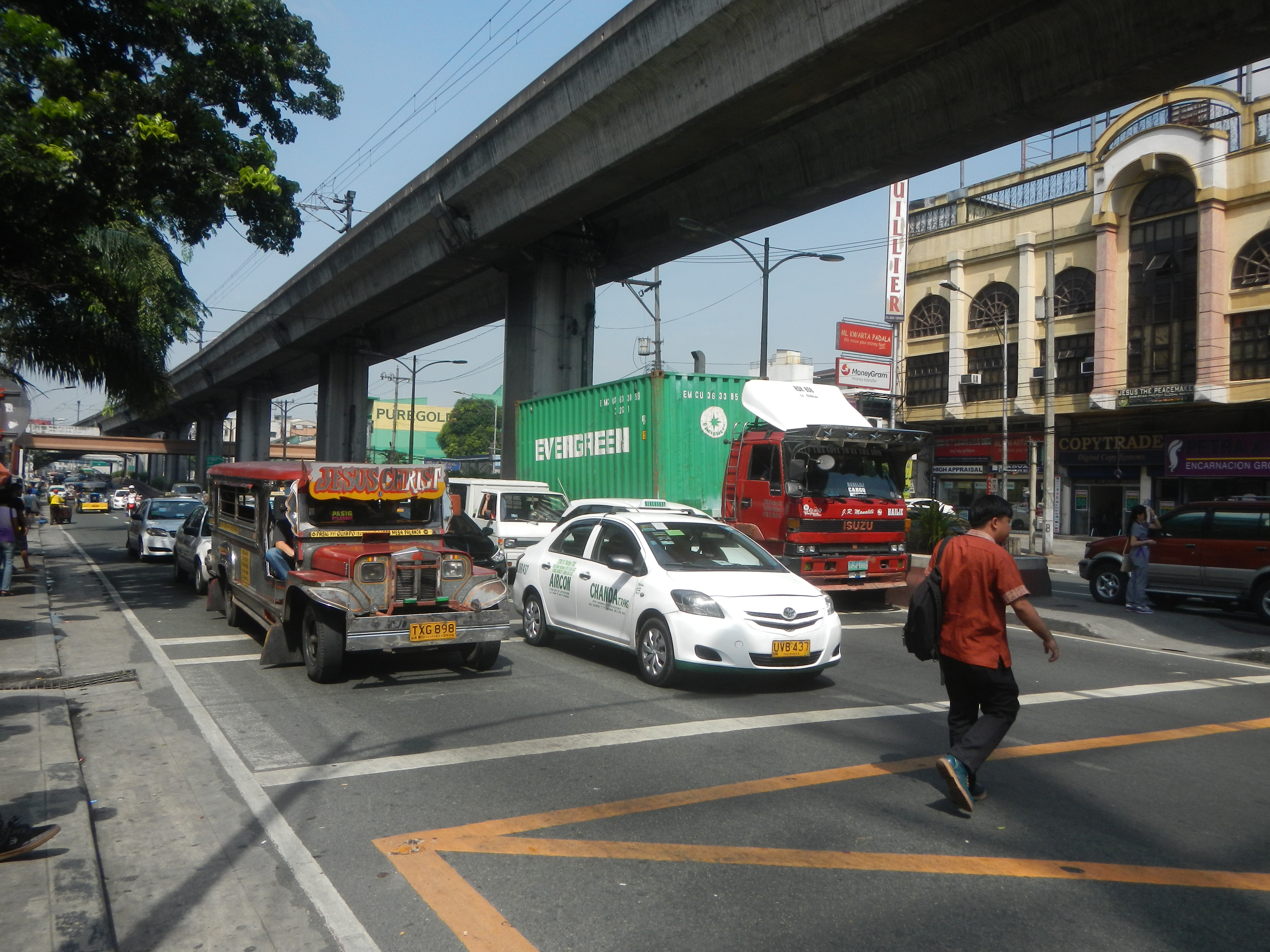 Pureza station Major roads in Manila along Magsaysay Boulevard List of barangays of Metro Manila Barangays 425, 426, 427, Zone 43, District II, Sampaloc, Manila, 579, 580, 581, Zone 56, District IV, 592, 593, Zone, 58, 626, 627, 628, 629, Zone 63, District VI, Santa Mesa has 49 barangays (Barangays 587-636) towards Pureza Street & Pureza Extension, Fortuna Street, Hipodromo Street, Anonas Street, Teresa Street to Old Santa Mesa Street, Ramon Magsaysay Bridge II Load Limit 20 metric Tons, Santa Mesa Station KM6.500 Yard Fencing and Station Development P 17.3 million for the Commuter Line of PNR Cluster 2 P. Burgos Elementary School, Altura Street corner Buenos Aires Street (Note: Judge Florentino Floro, the owner, to repeat, Donor Florentino Floro of all these photos hereby donate gratuitously, freely and unconditionally all these photos to and for Wikimedia Commons, exclusively, for public use of the public domain, and again without any condition whatsoever).